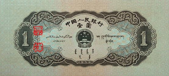 Back of second series 1 yuan renminbi (version 2)